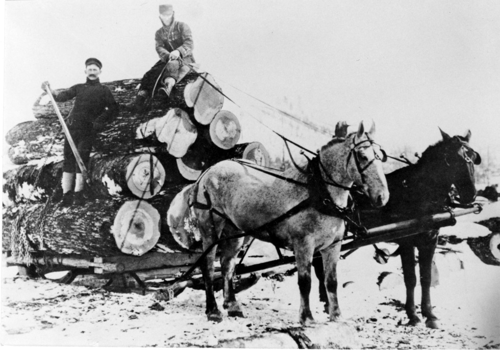 This photo, circa 1900, depicts an early logging scene in the Ochoco Mountains, Crook County, Oregon. Included in the digital exhibit, Ponderosa Pine Capital of the World